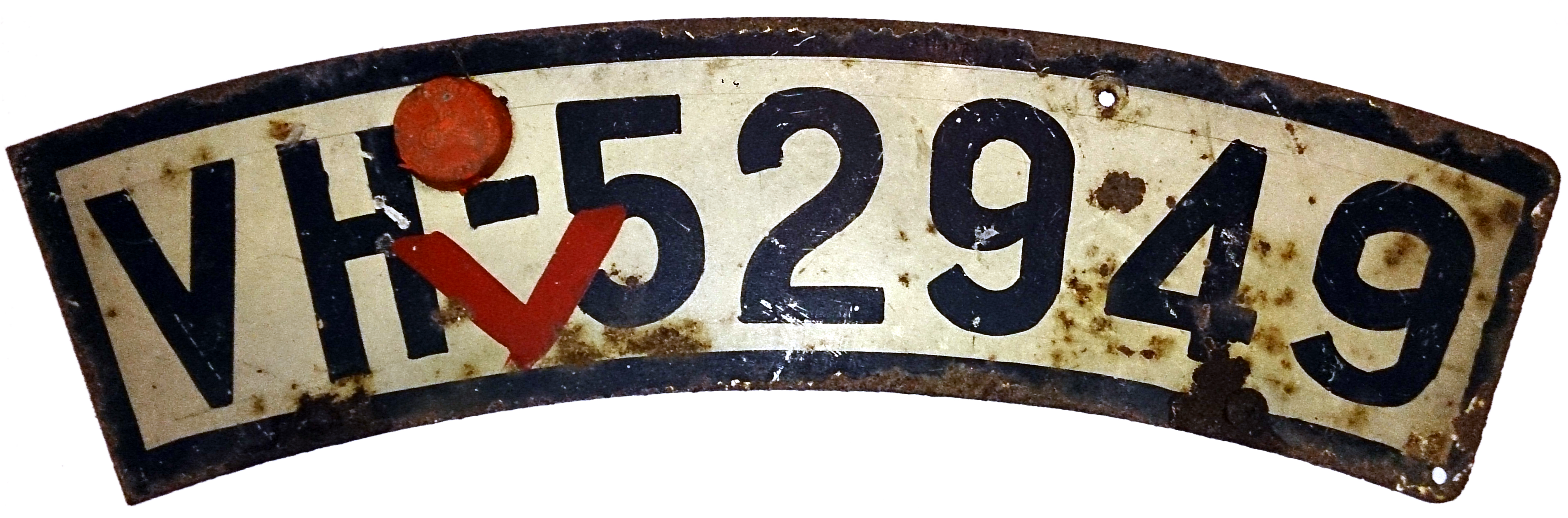 Hesse motorcycle license plate VH-52949